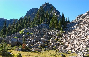 Lemei Rock is the highest volcanic peak in the Indian Heaven Wilderness standing at an elevation of 5,925 ft (1,806 m).